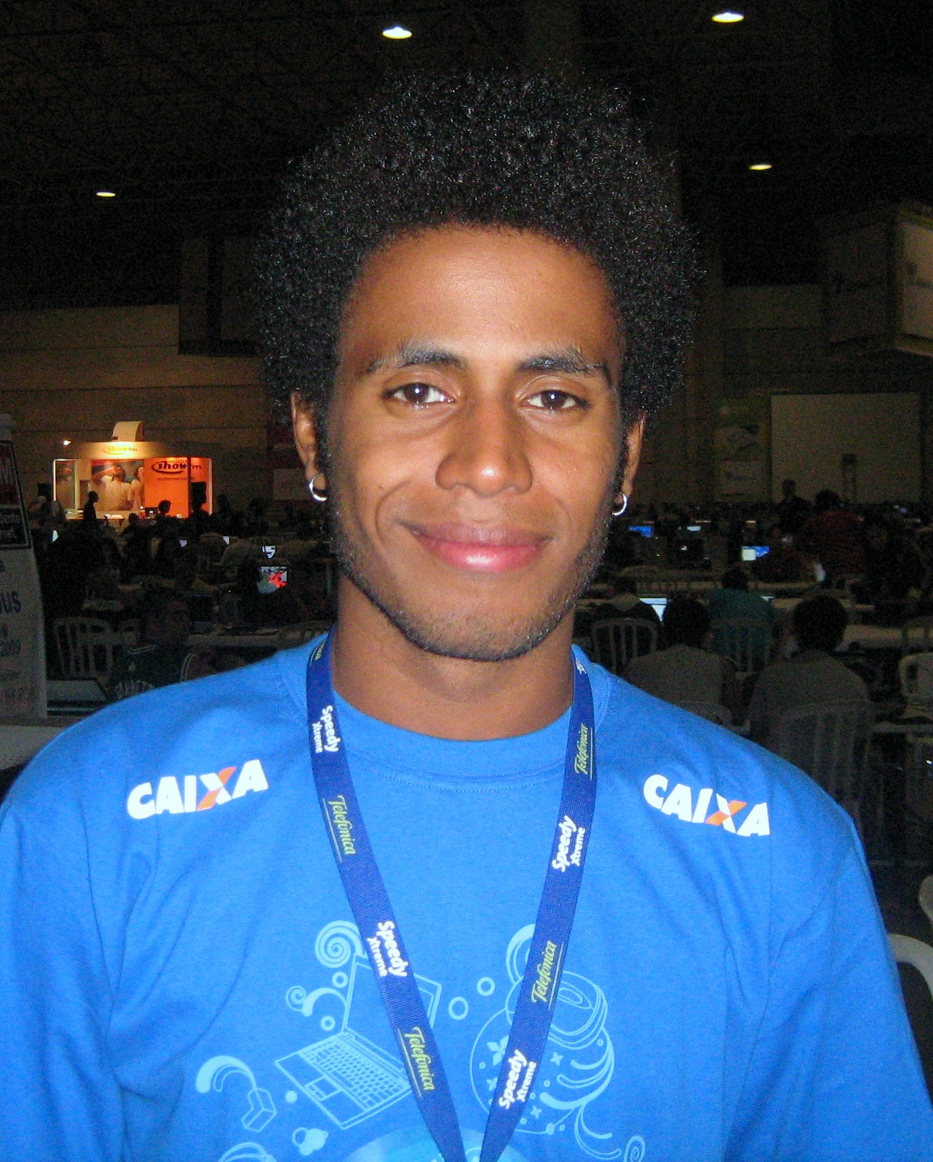 Brazilian actor Ícaro Silva in the Campus Party Brasil, 2009